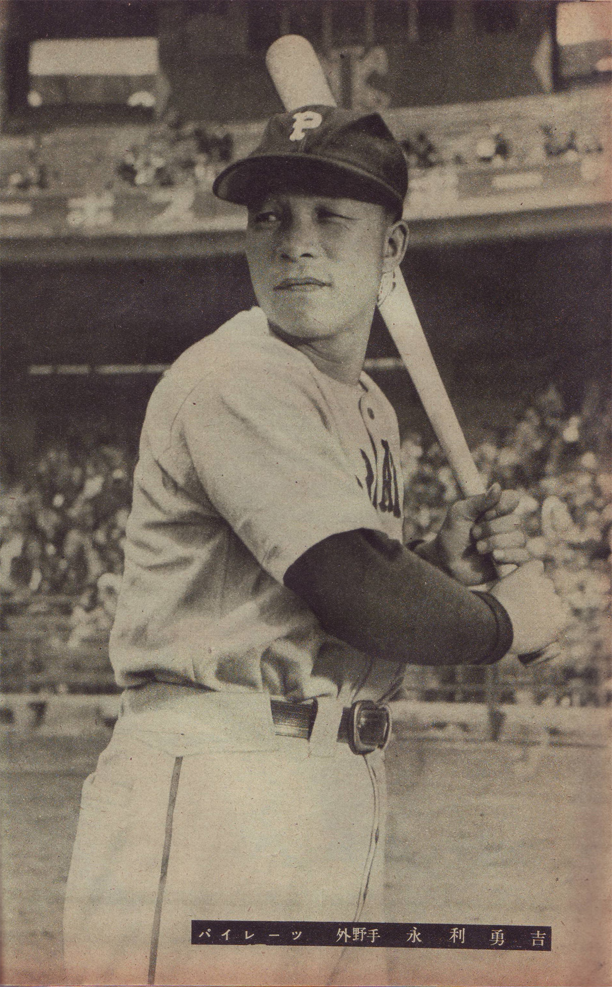 Yukichi Nagatoshi (Nishi Nippon Pirates). taken in 1950.